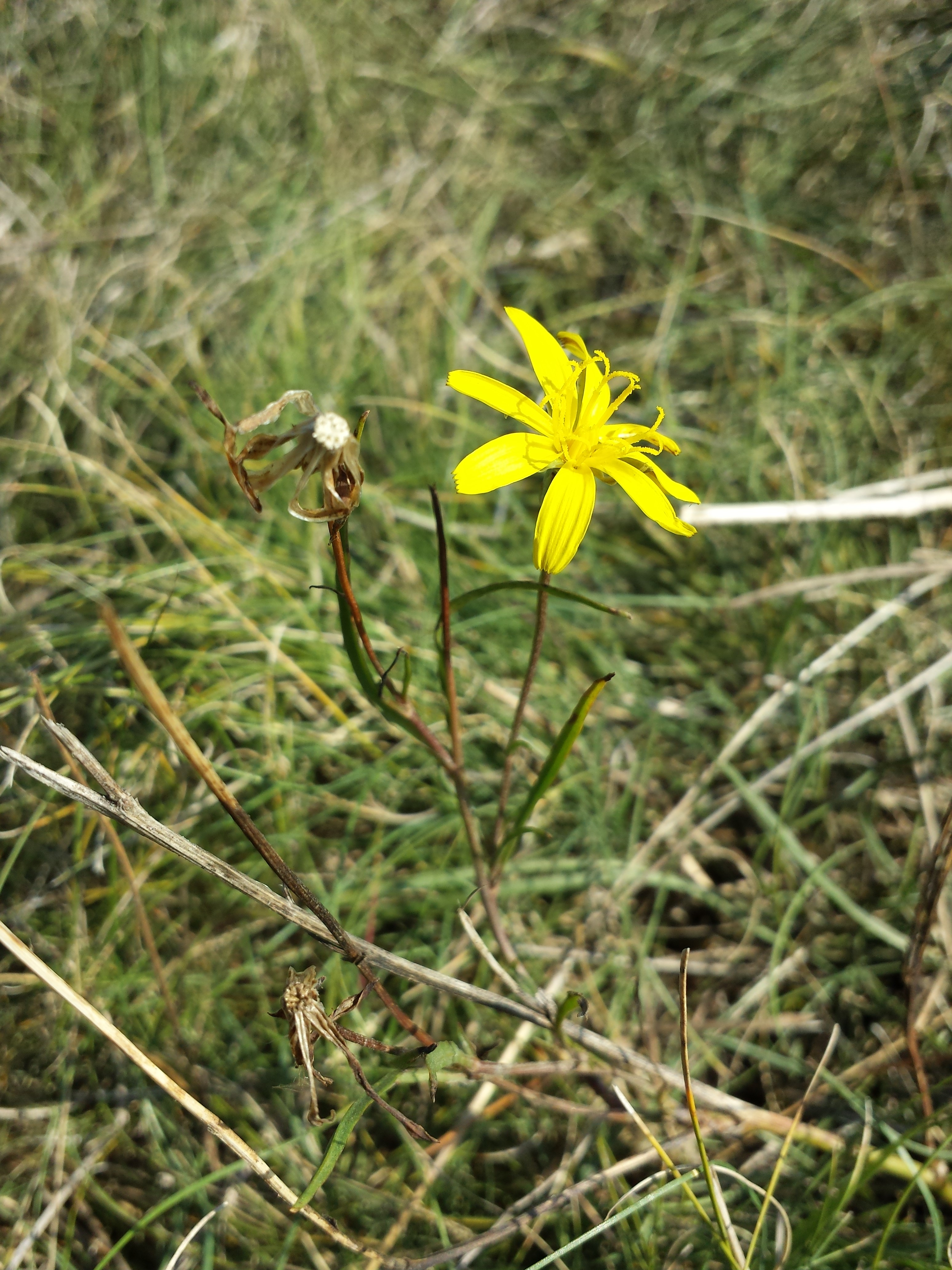 Habitus Taxonym: Scorzonera parviflora ss Fischer et al. EfÖLS 2008 ISBN 978-3-85474-187-9 Location: near Darscho/Apetlon, district Neusiedl am See, Burgenland, Austria - ca. 120 m a.s.l. Habitat: salty meadow